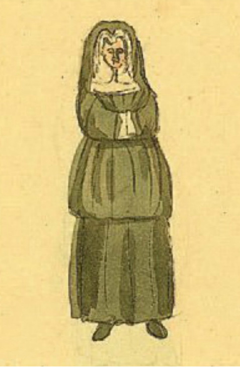 A 17th or 18th-century "Grey Sister" (Third Order of Franciscans) in Maastricht, the Netherlands. Drawing by Philippe van Gulpen, c 1850.